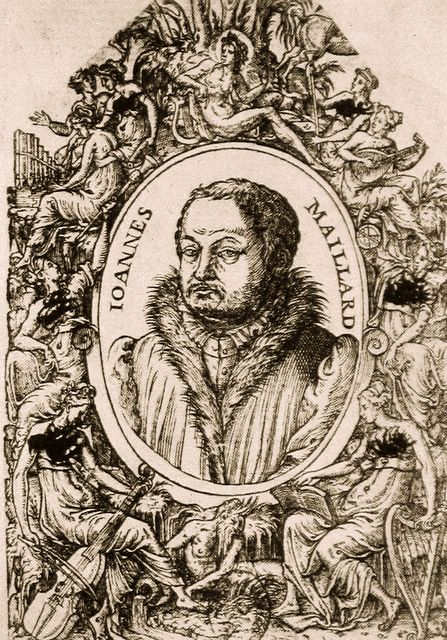 from -- PD-art